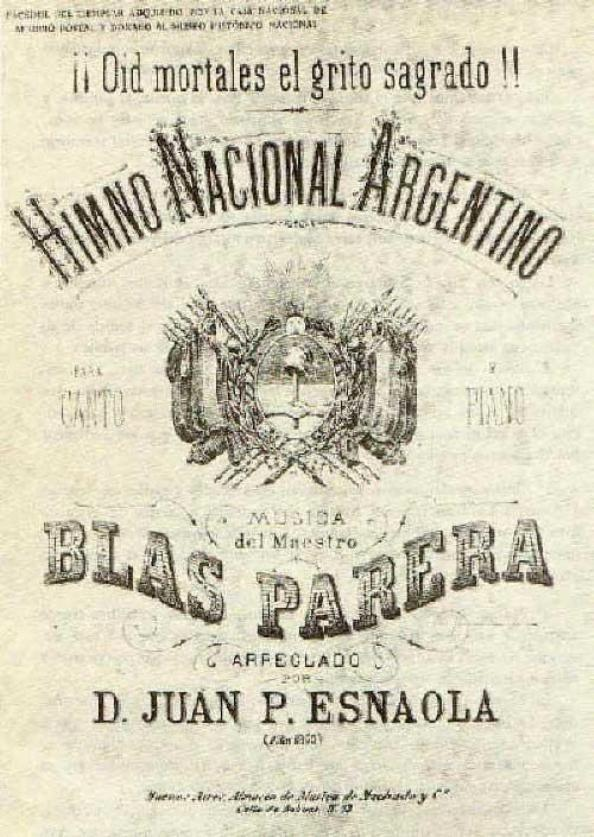 Sheet music of the National Anthem of Argentina, copy from the original previously published on La Lira Argentina in 1824.